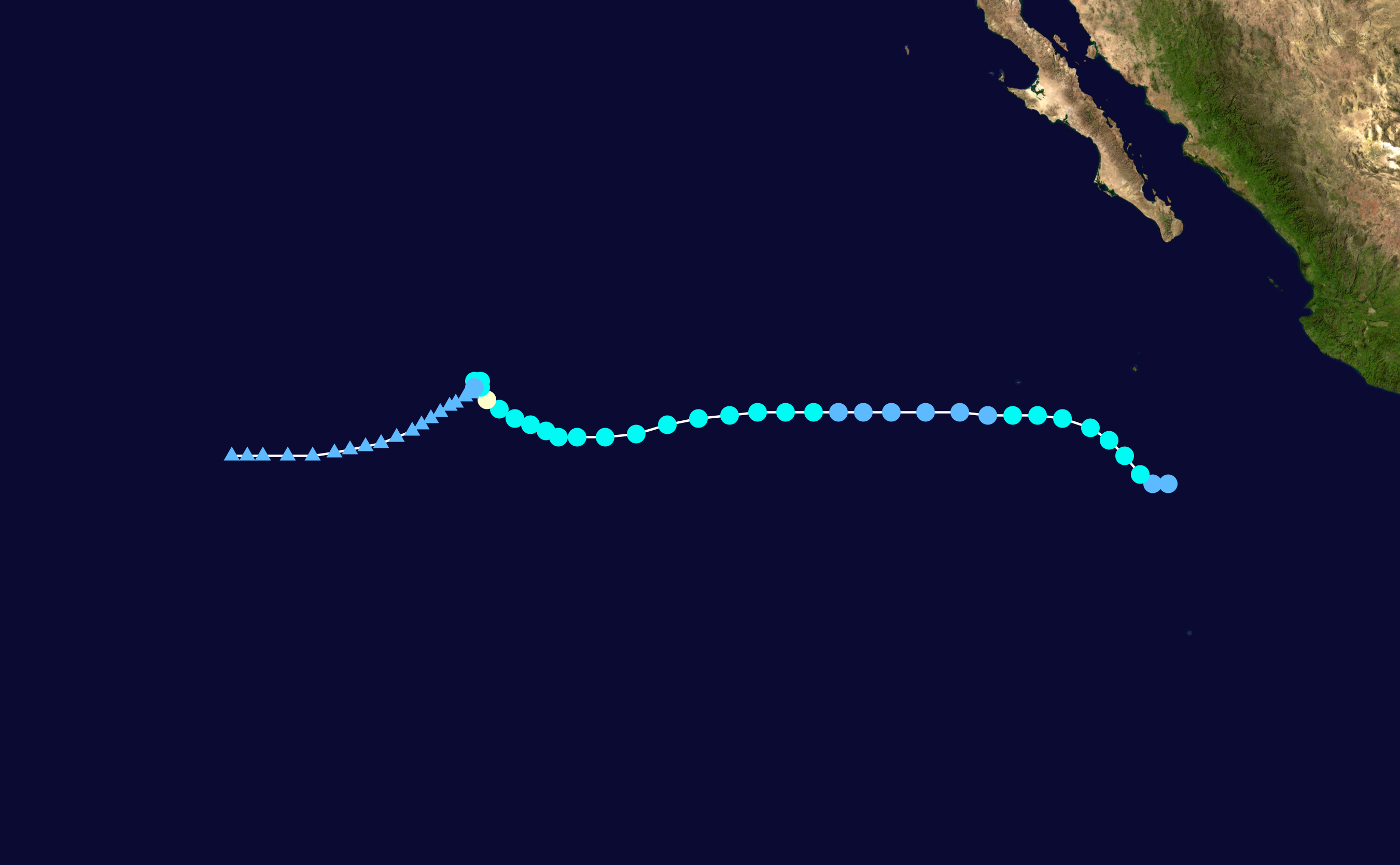 Hurricane Isis (2004) track. Uses the color scheme from the Saffir-Simpson Hurricane Scale.